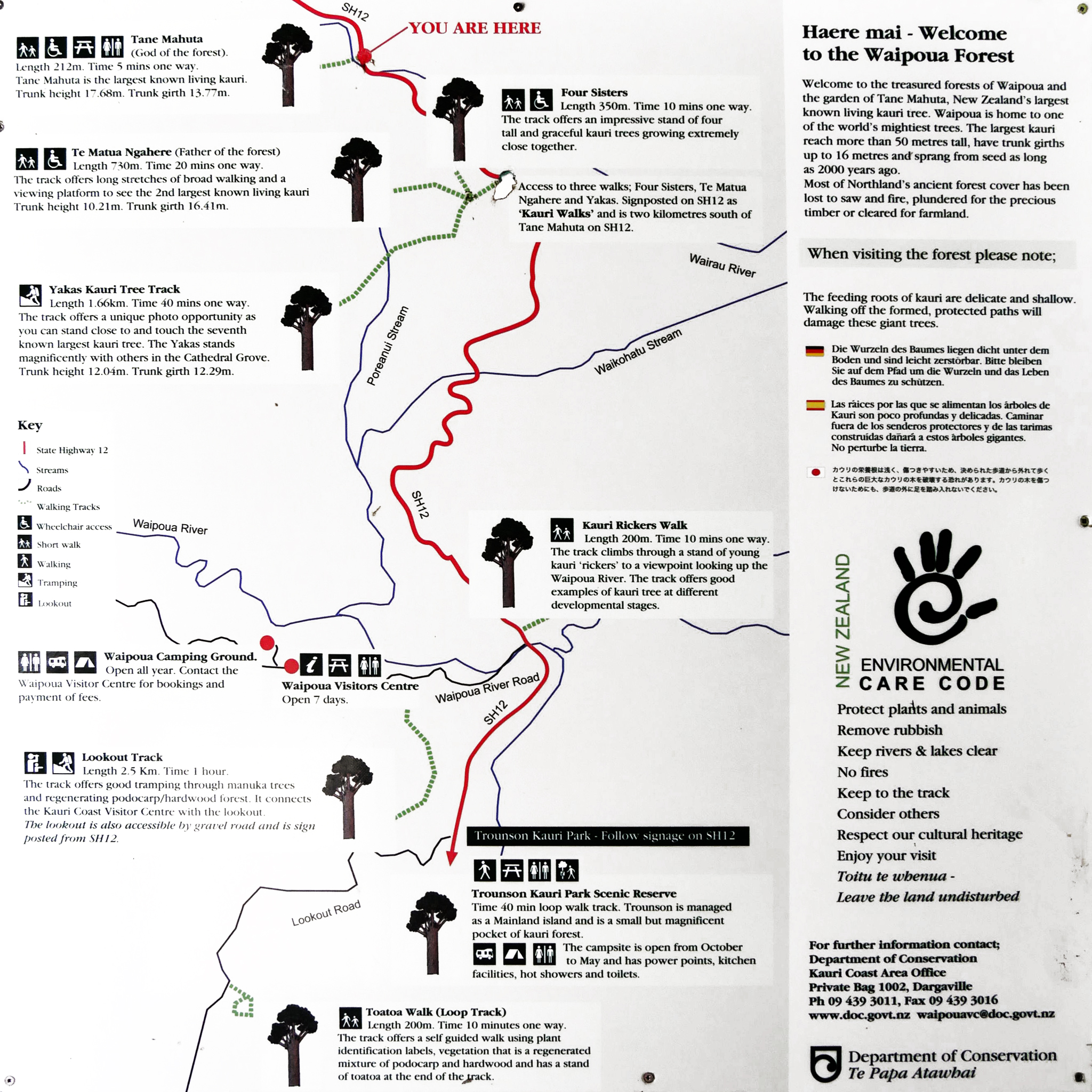 Information Board at carpark to Tāne Mahuta, Waipoua Forest, Northland, North Island, New Zealand